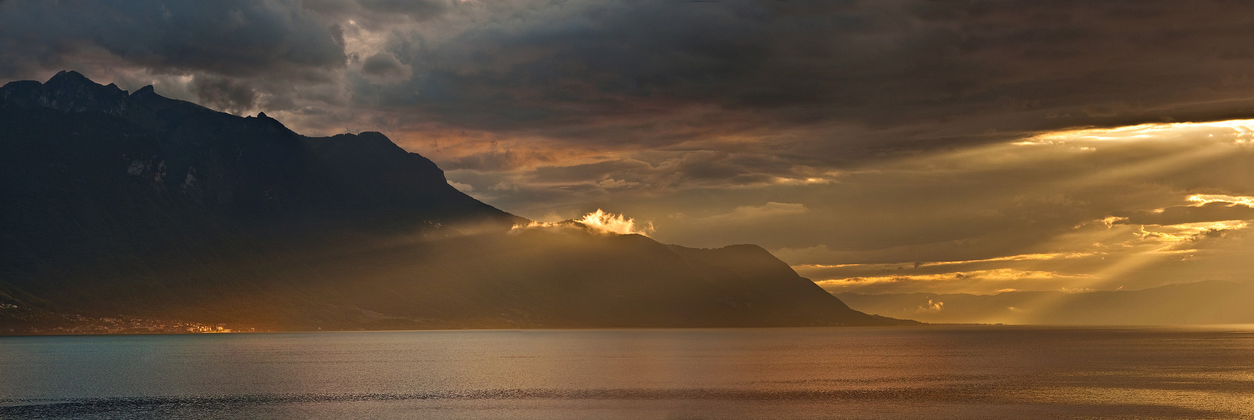 Lake Geneva after storm. Picture taken from Montreux, on the left side in the rays of light - Saint-Gingolph.